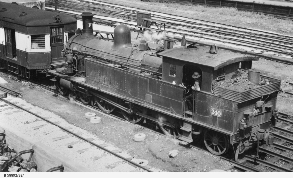 South Australian Railways F240 at an unidentified location, 1952